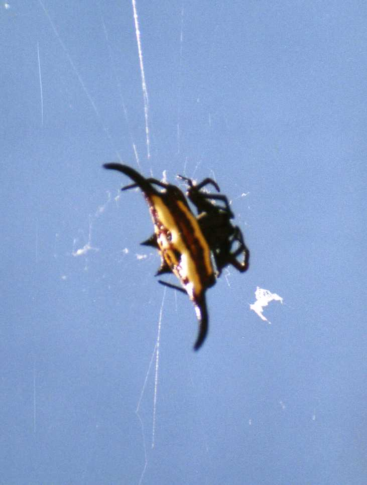 Kite Spider (Gasteracantha falcicornis) in Ukunda, Kenya